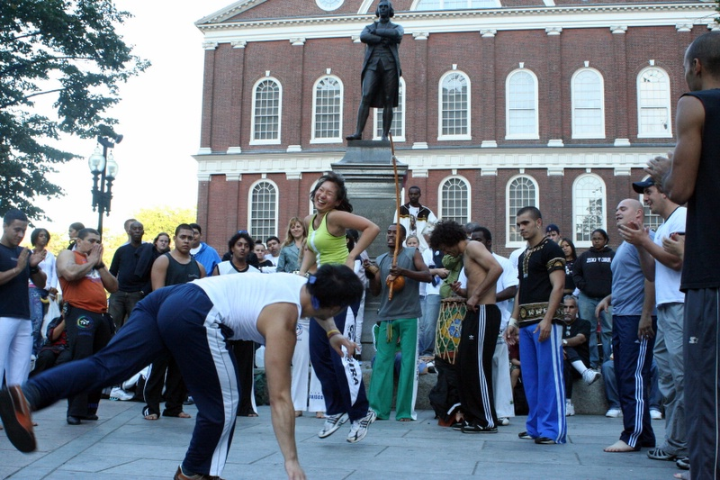 This picture was taken by me (Tim Fitzsimons) in Boston on the October 2, 2005 outside Faneuil Hall. If using this picture, please credit me by using the name indicated above and email me at tfitzsimons at gmail dot com. This is of the Associação de Capoeira Mandingueiros dos Palmares under the leadership of Mestre Chuvisco (orange shirt on the left) performing in front of Faneuil Hall in Boston, Massachusetts, USA.